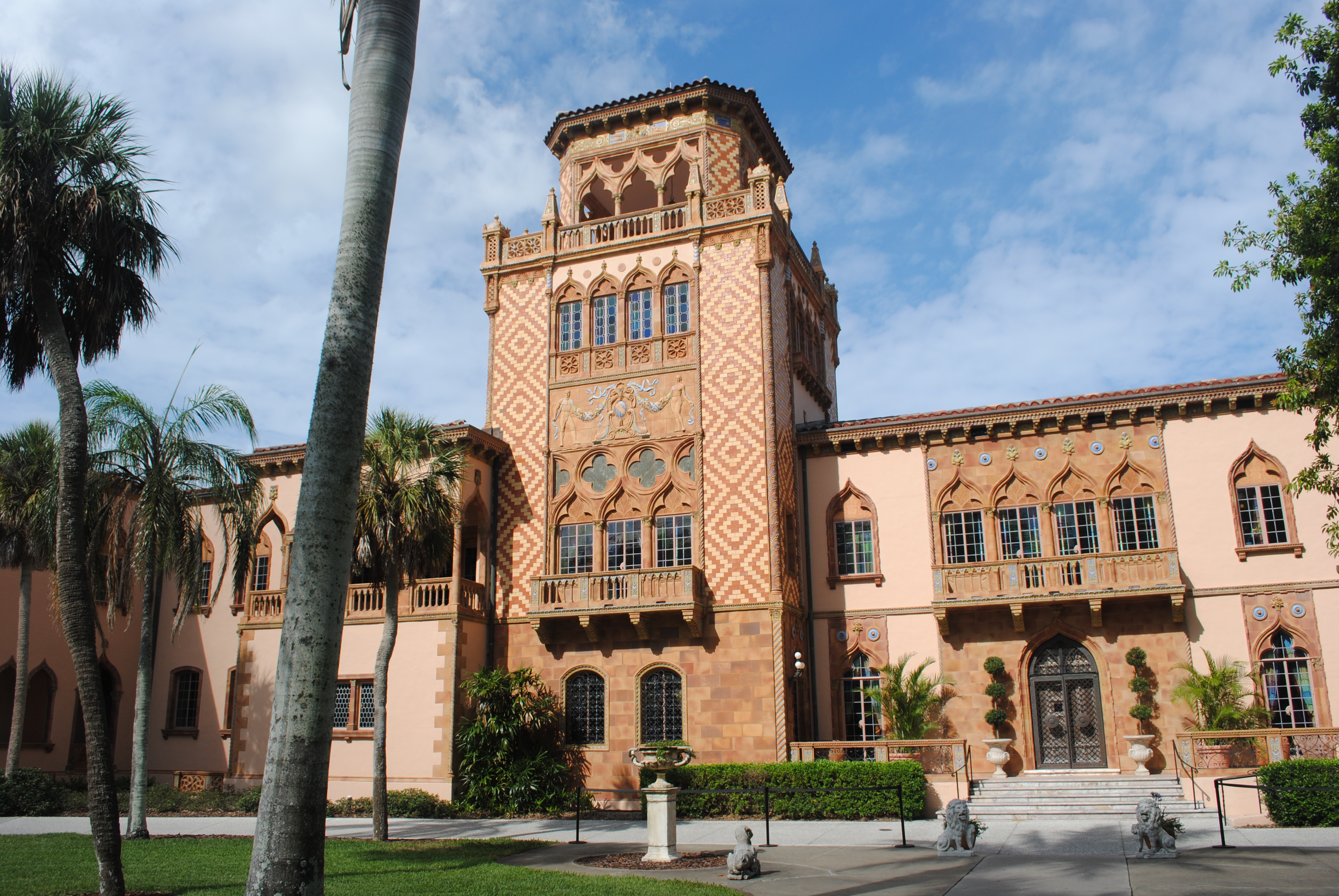 Exterior view of the Ringling house in Sarasota, Florida